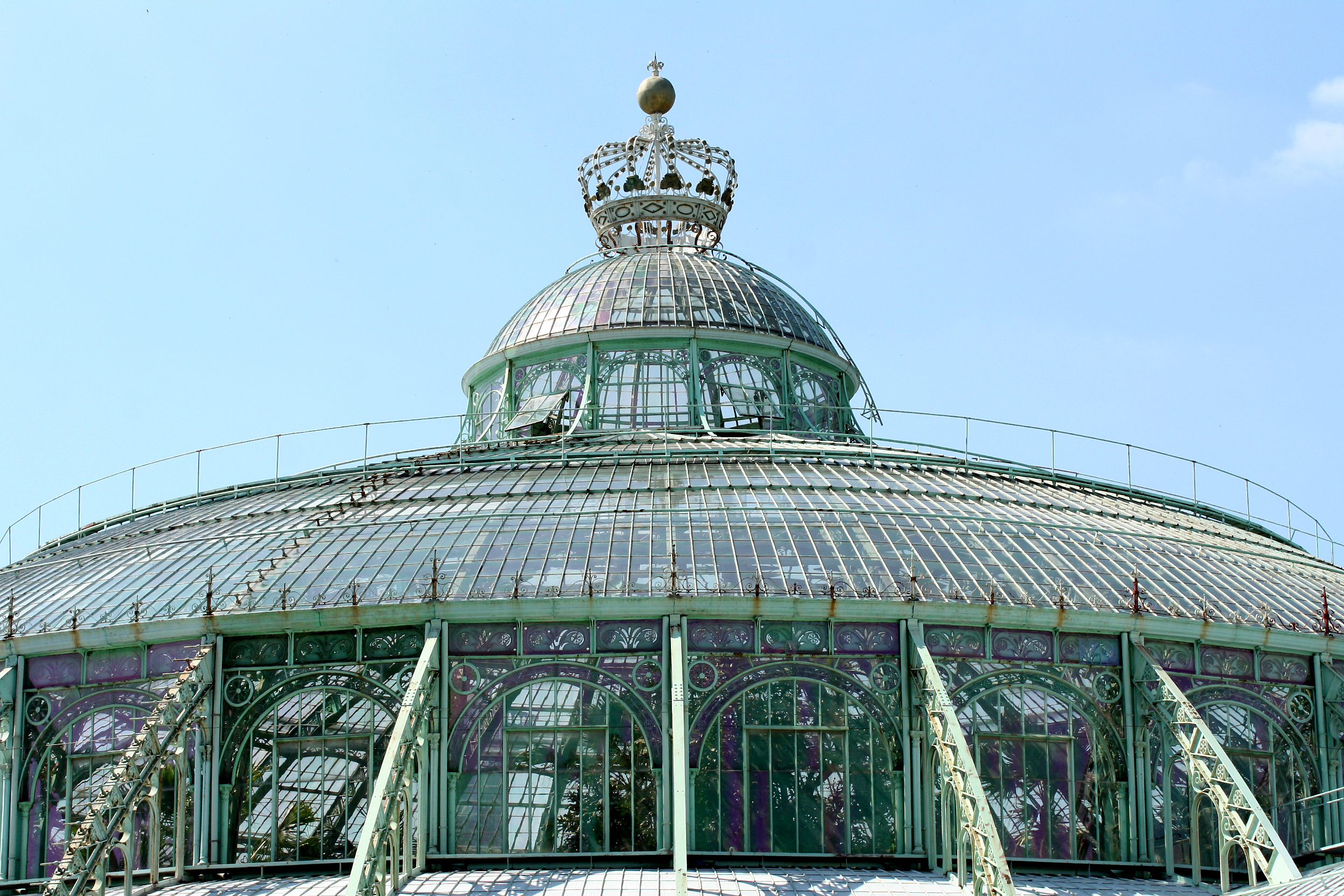 Laken (Belgium), external view of the big greenhouse dome so called "Jardins d'hiver" which is part of the Royal Greenhouses of Alphonse Balat (1874-1890).